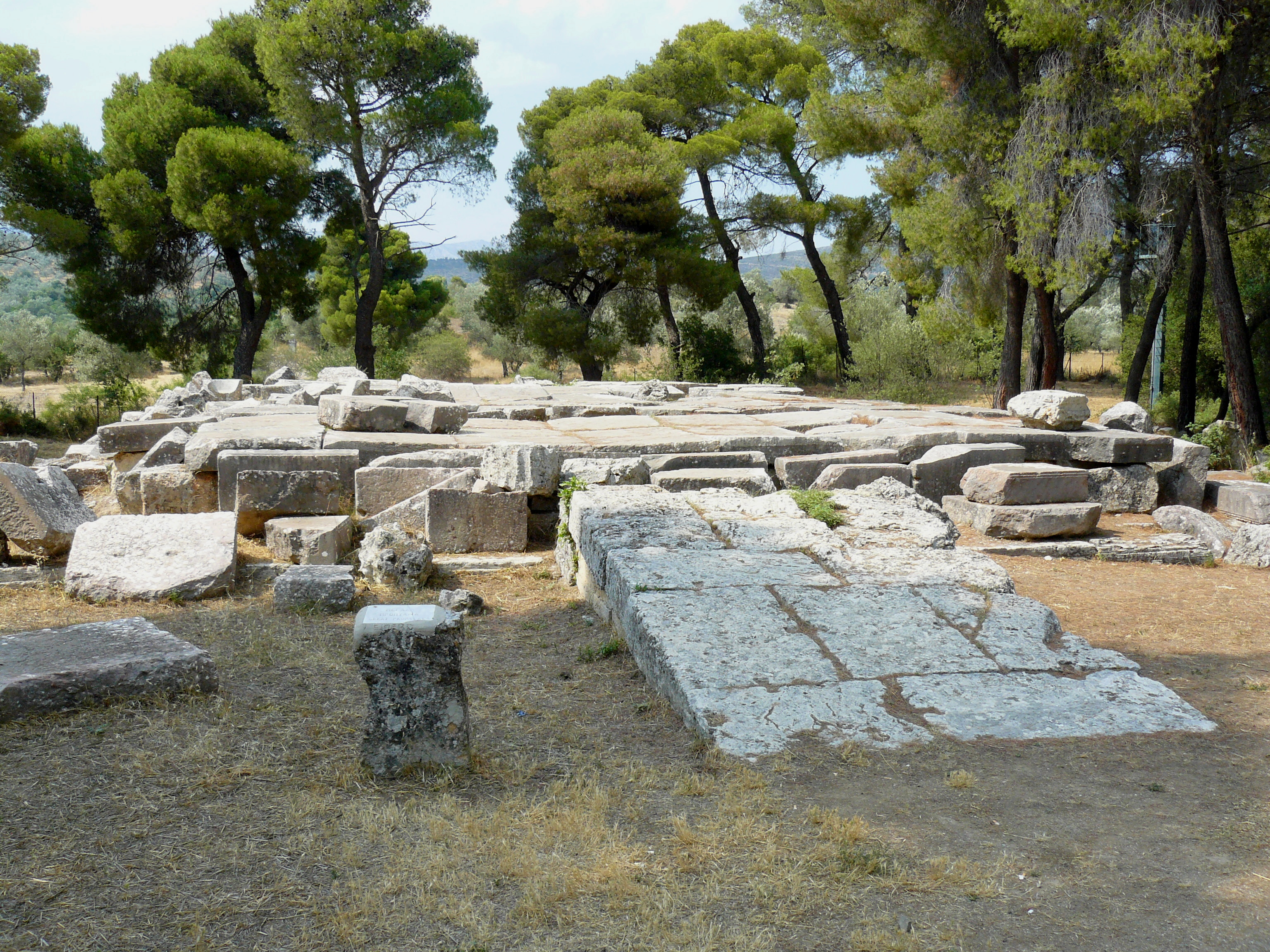 Propylaea of the sanctuary of Asclepios in Epidauros, Greece